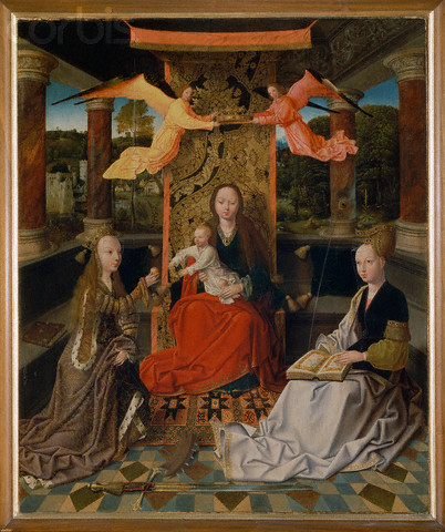 Madonna and Child Enthroned With Saints Catherine and Barbara by Master of Hoogstraten ca. 1520